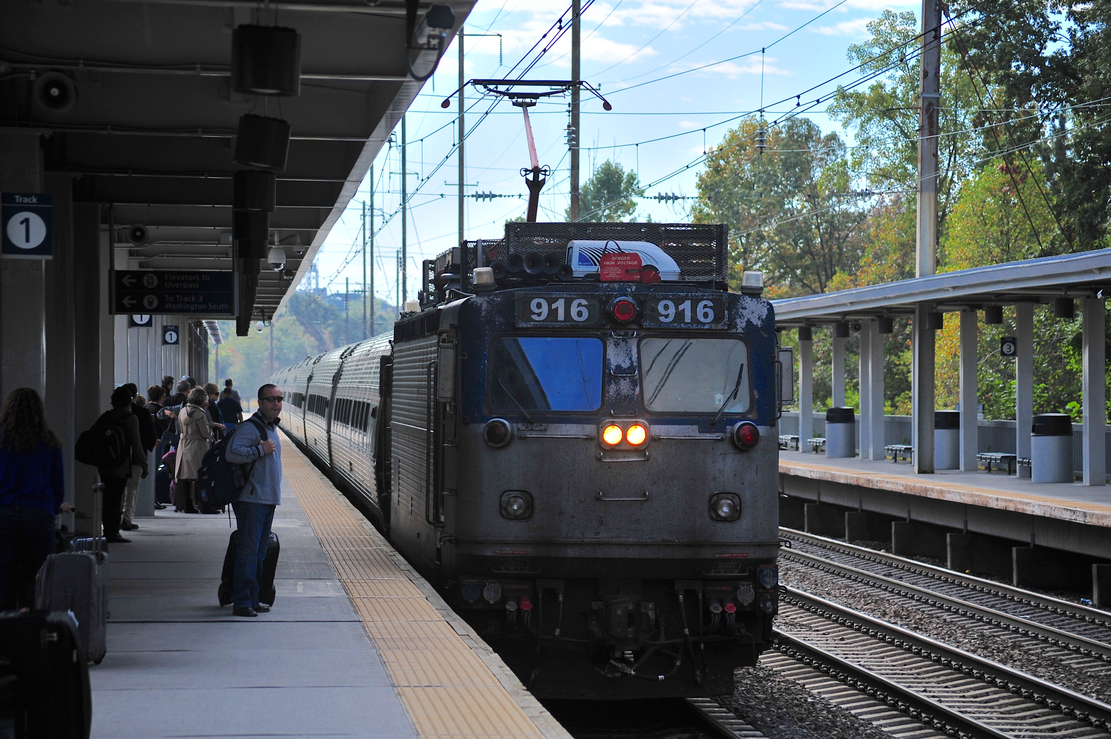 AEM-7 916 leads my northbound regional into BWI Rail Station